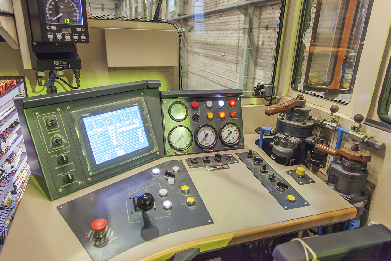 Cabin of diesel locomotive TEM2UGMK-5987. Russia, Kurgan region, JSC "Shadrinsk plant of automobile units"